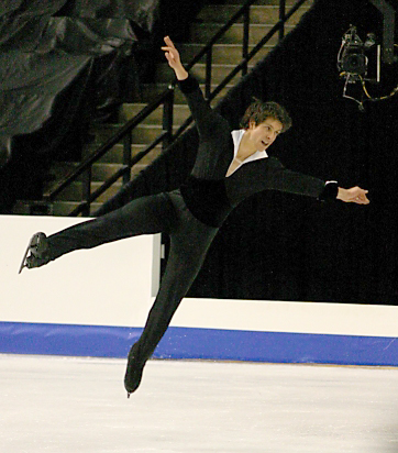 Ryan Jahnke performs a death drop into a back sit spin at the 2004 Four Continents Championships in Hamilton, Ontario, Canada. Photo by Vesperholly